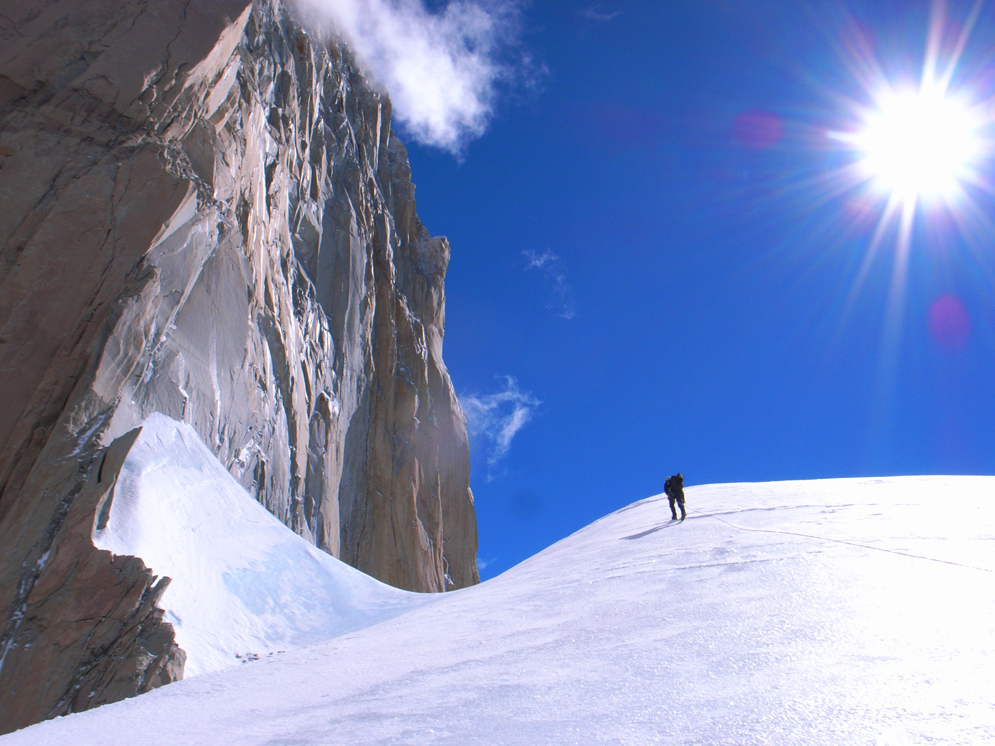 Kasper Berkowicz approaching Fitz Roy. Photo by: Kristoffer Szilas.